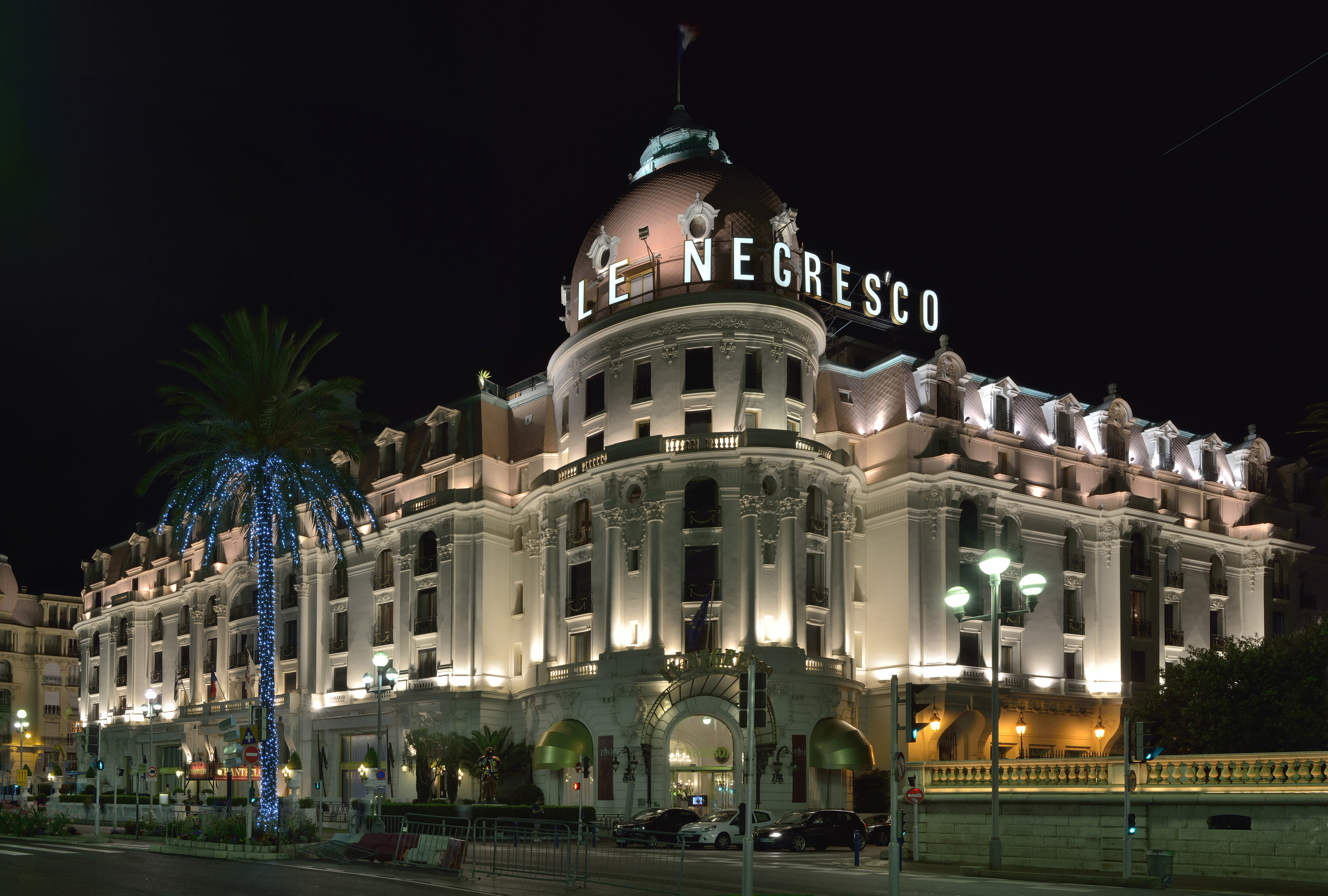 Hotel Negresco by night in Nizza in France